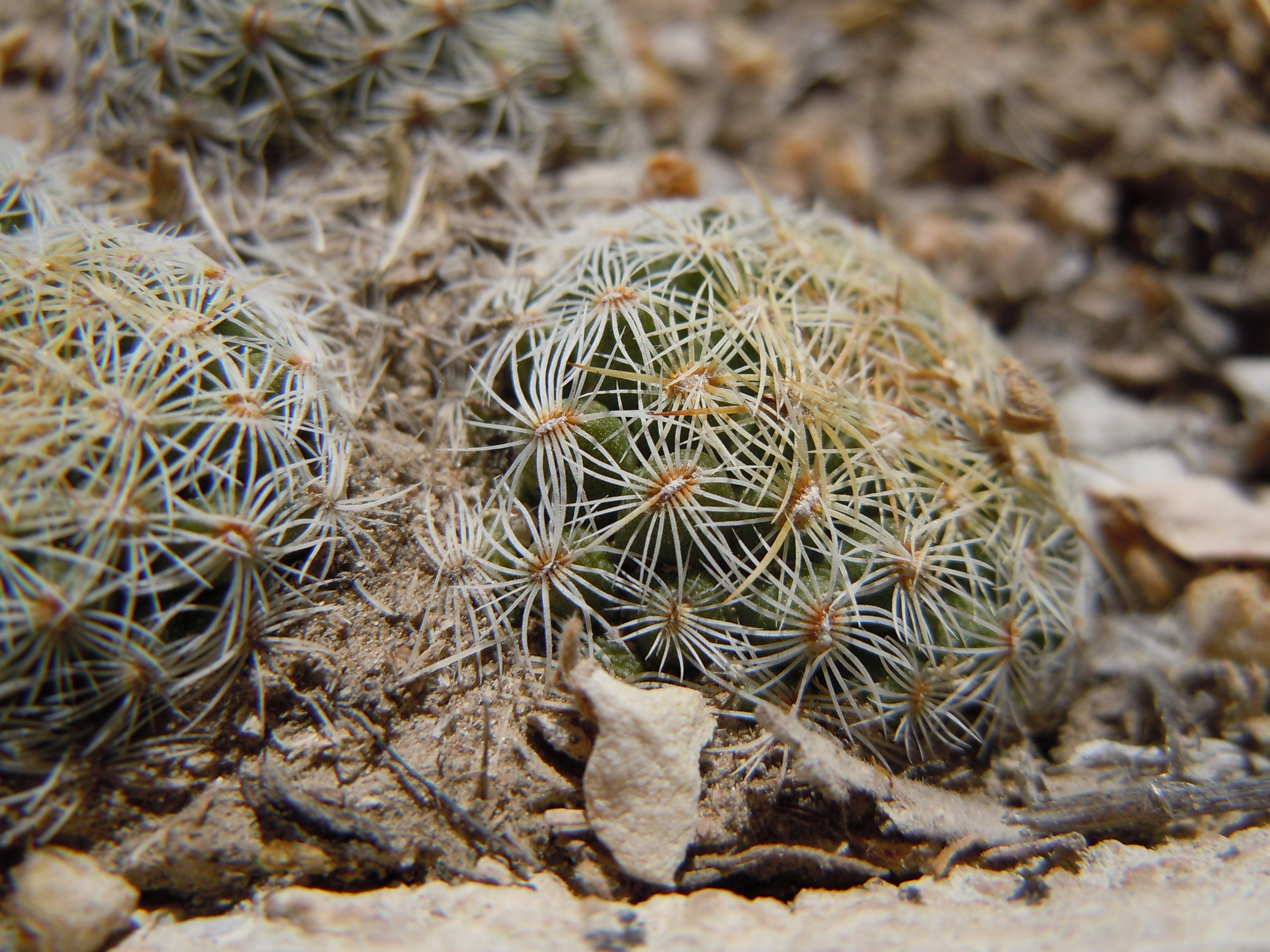 The radiating white spines lacking the more central erect and reddish spines is characteristic of the spine cluster of Coryphantha missouriensis. Both coryphanthas are sympatric on the south end of the Lemhi Range.